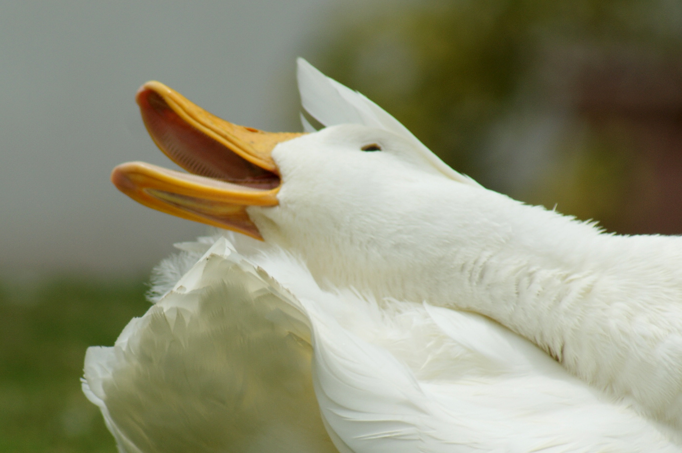 Neck and bill of a White Duck.